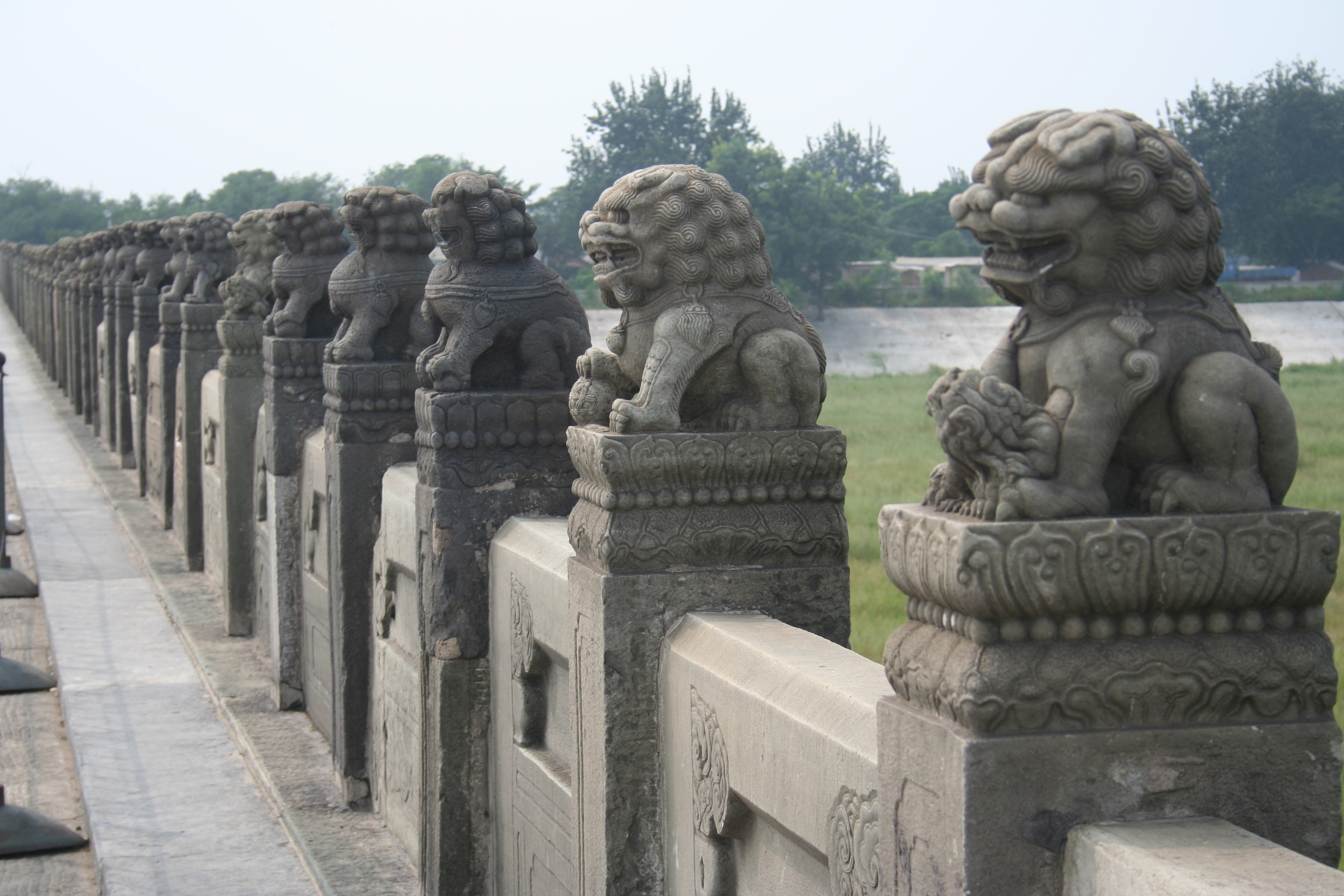 IMG_6596, Lugouqiao (Marco Polo Bridge) Lugouqiao (Ponte di Marco Polo) Beijing 2006 Location